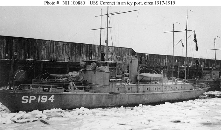 United States Navy patrol boat USS Coronet (SP-194)